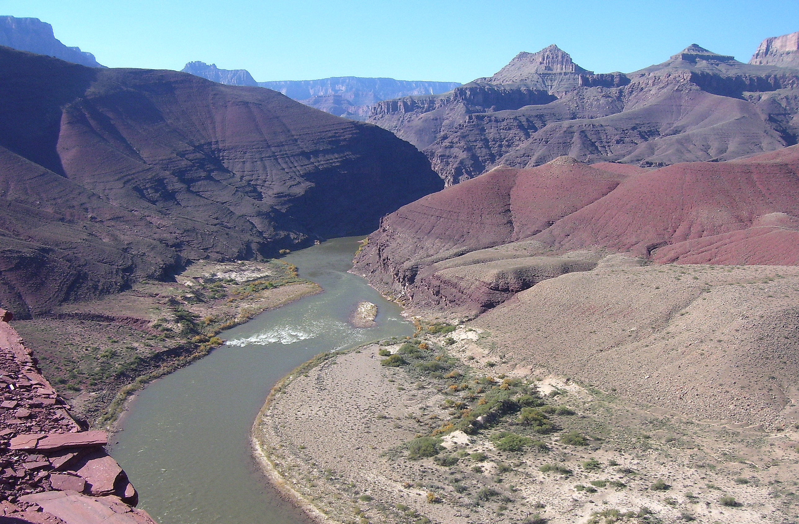 Overlook over the Colorado River in the Grand Canyon along the Escalante Route. The 2 small prominences are "The Tabernacle", right, and Solomon Temple above the Colorado; the Nevills Rapid is below Solomon Temple's southeast. (the view is about 1.5 to 2.0 upstream from Nevills Rapid)(Various faults run up this Colorado R. section, as well as side canyon faults at other directions.) Standing on Redwall Limestone (downfaulted canyon side); across river: Supai Group (slopes), Redwall Limestone, above (Muav Limestone?), Bright Angel Shale, (the Muav/Bright Angel slope-former units), above the cliffs so easy to find, above the river: the (thinner, erosion-resistant), cliff-former, Tapeats Sandstone-(almost always a horizontal shelf, the "Tonto Platform"-(Tonto Group). The older angled basement rocks (at ~15 degrees) meet the bottom of the Tapeats, at various river sites, (8 separate units (the Unkar Group) make contact with the Tapeats); also the Nankoweap Formation, etc. (The South Rim is visible at upper, photo, left (intersection, with East Rim); the photo is High-Res, expandible; South Rim is in center, on Horizon.)